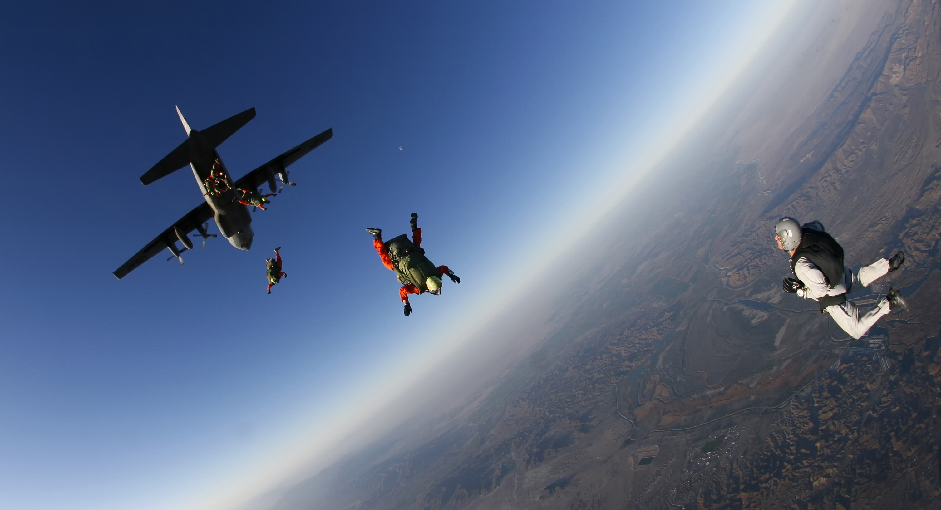 The U.S. Army John F. Kennedy Special Warfare Center and School is prepared to incorporate military free-fall training into the Special Forces Qualification Course. This initiative will increase the regiment's collective forced-entry and global response capabilities. Military Free Fall Parachutist Course students fall through the skies over Yuma, Ariz. during a training jump. The instructor on the right will fall alongside his students, ensuring proper formation technique as the students jump as a team. (U.S. Army photo)